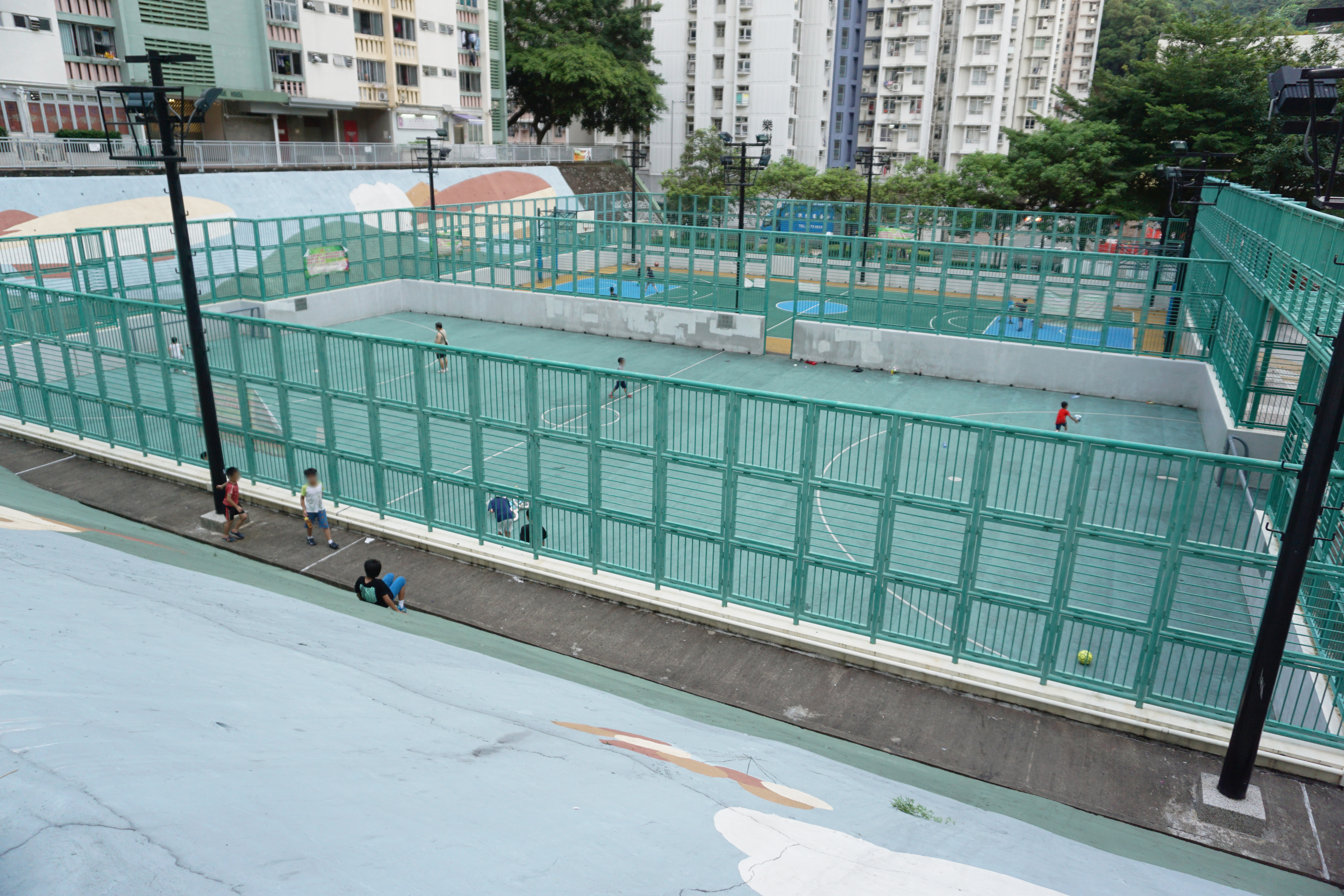 Lei Muk Shue Estate in Wo Yi Hop, Hong Kong.